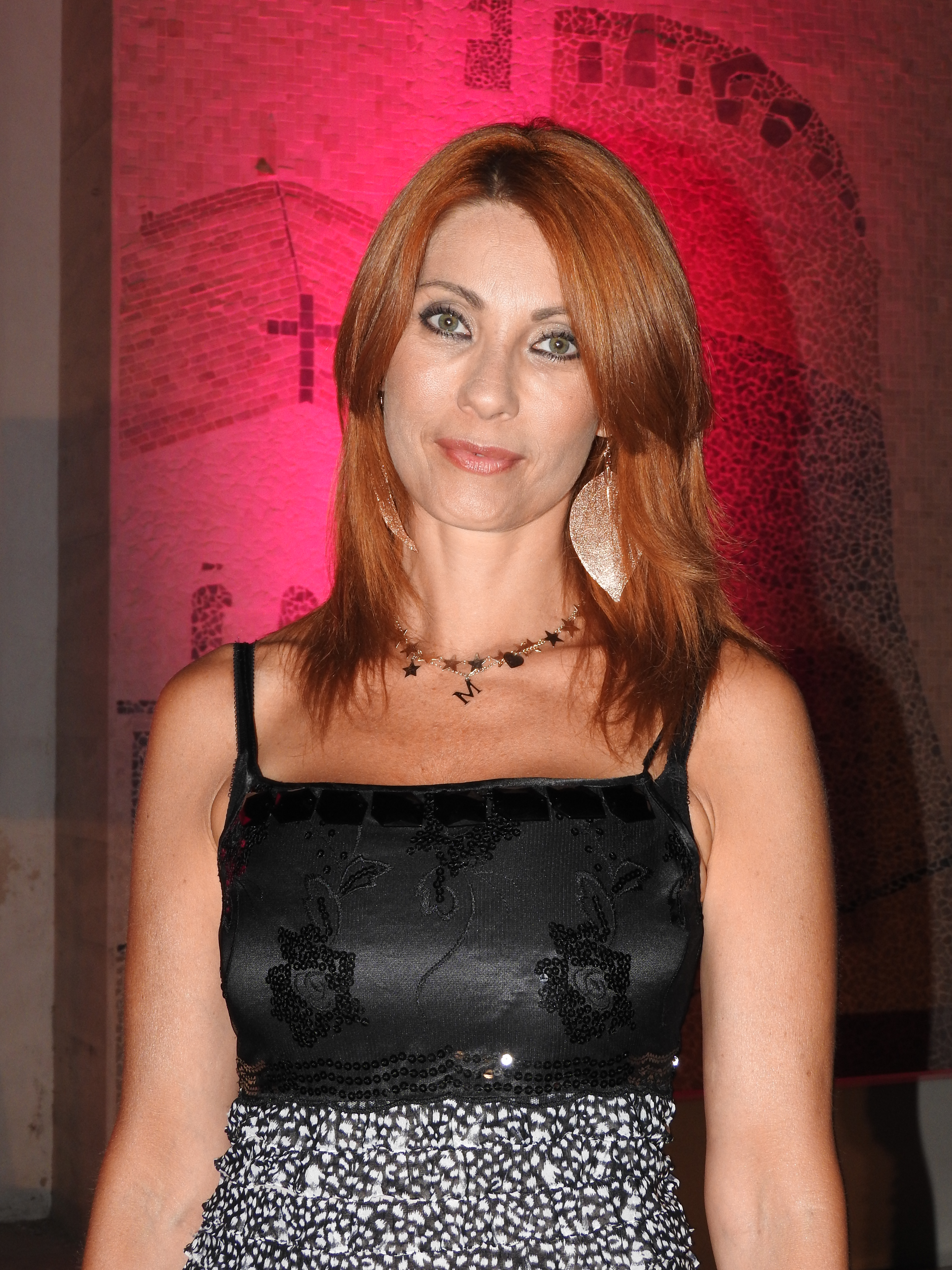 Italian actress Milena Miconi in Campora San Giovanni during a fashon show